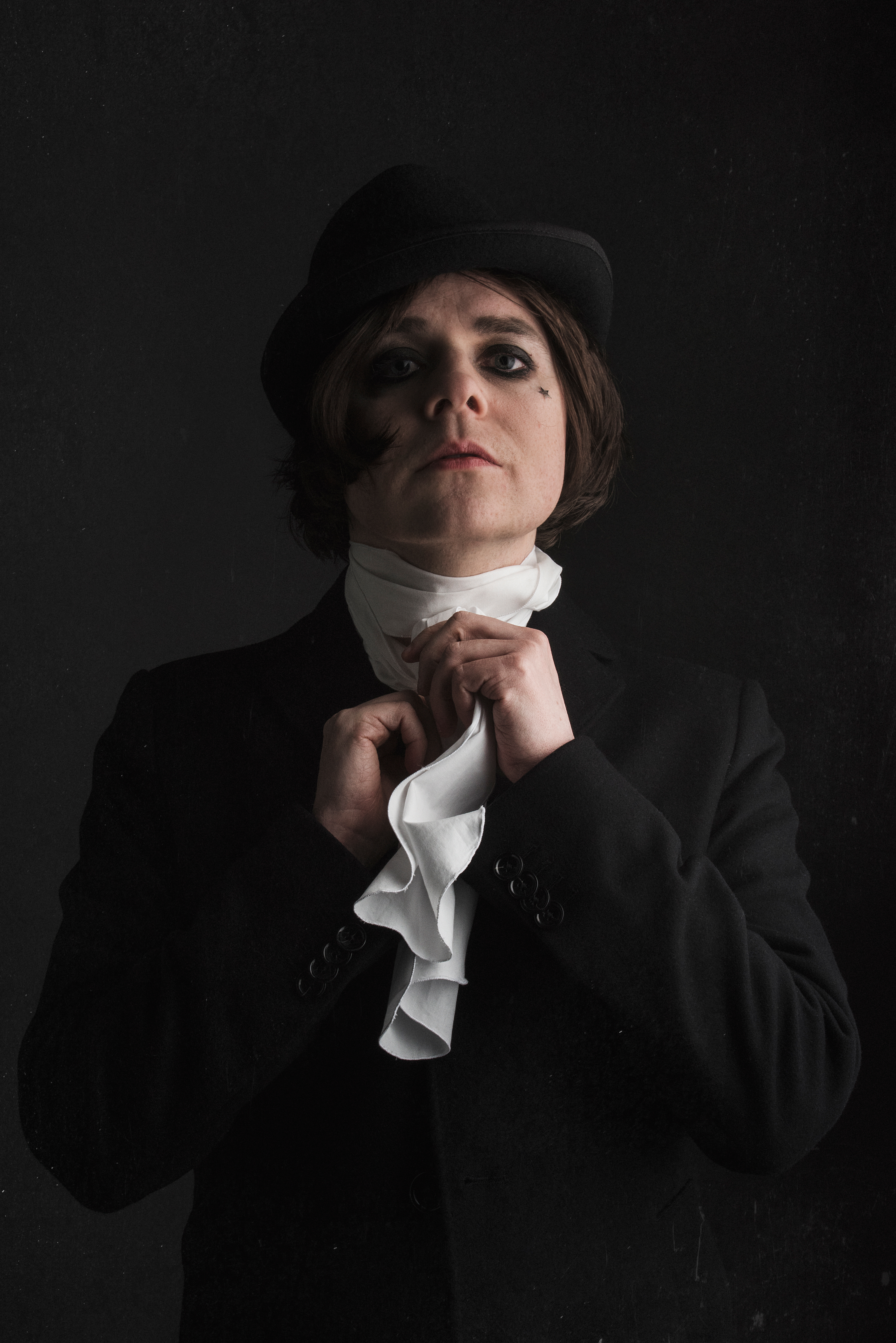 Swedish singer Henrik Berggren